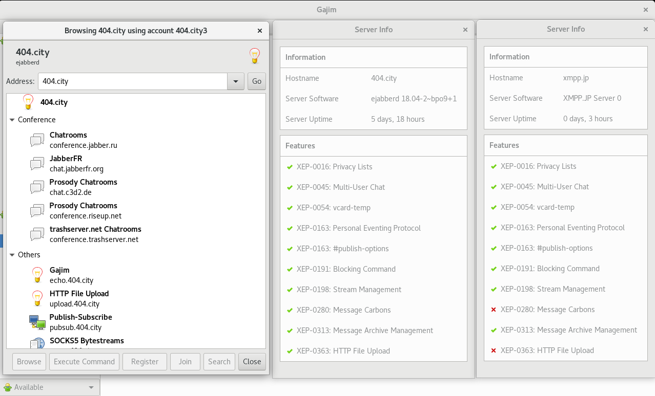 Gajim screenshot. Discover services. Server info: and